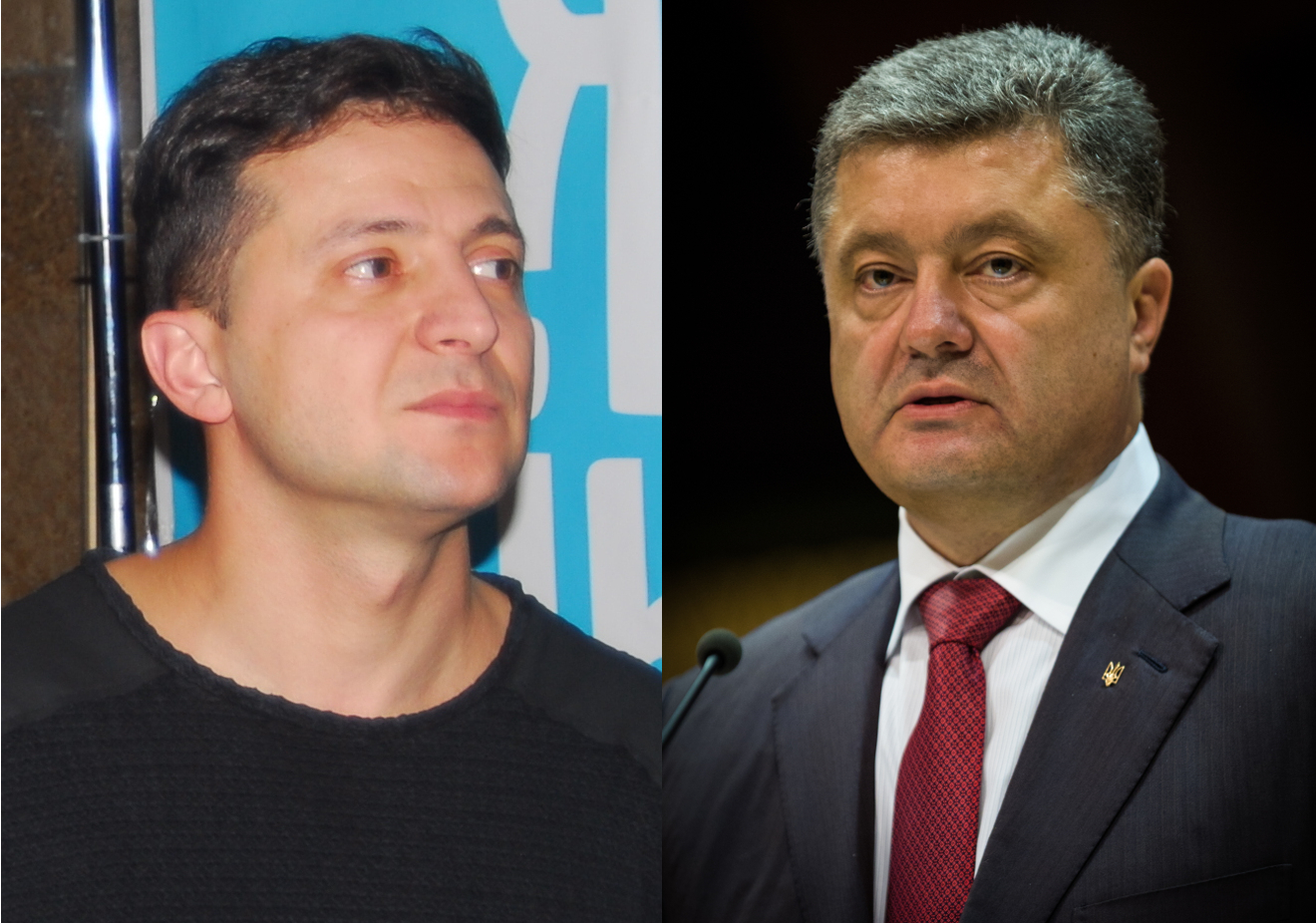 Volodymyr Zelensky vs. Petro Poroshenko